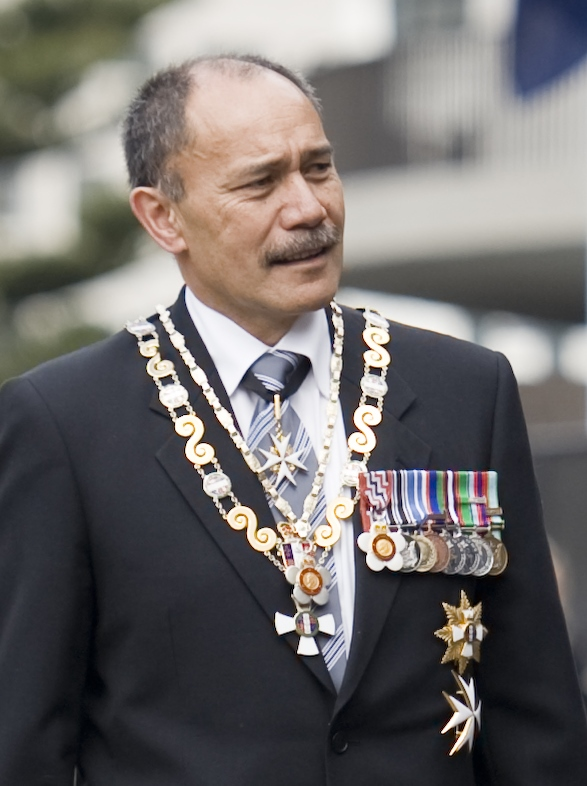 Swearing in ceremony of Lieutenant General Sir Jerry Mateparae as Governor-General of New Zealand at the New Zealand Parliament. (Crop)